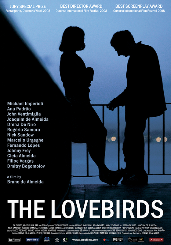 Film poster